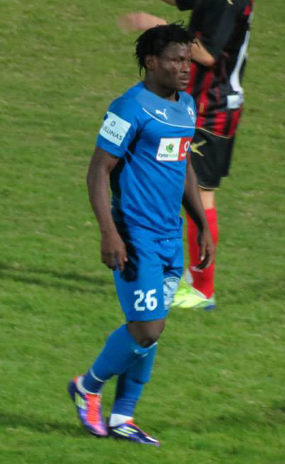 fofana against Ermis